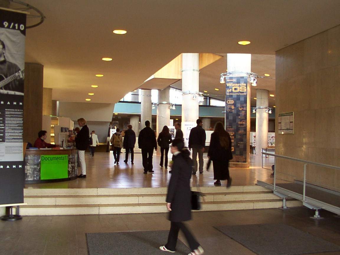 Wizards of OS 2001